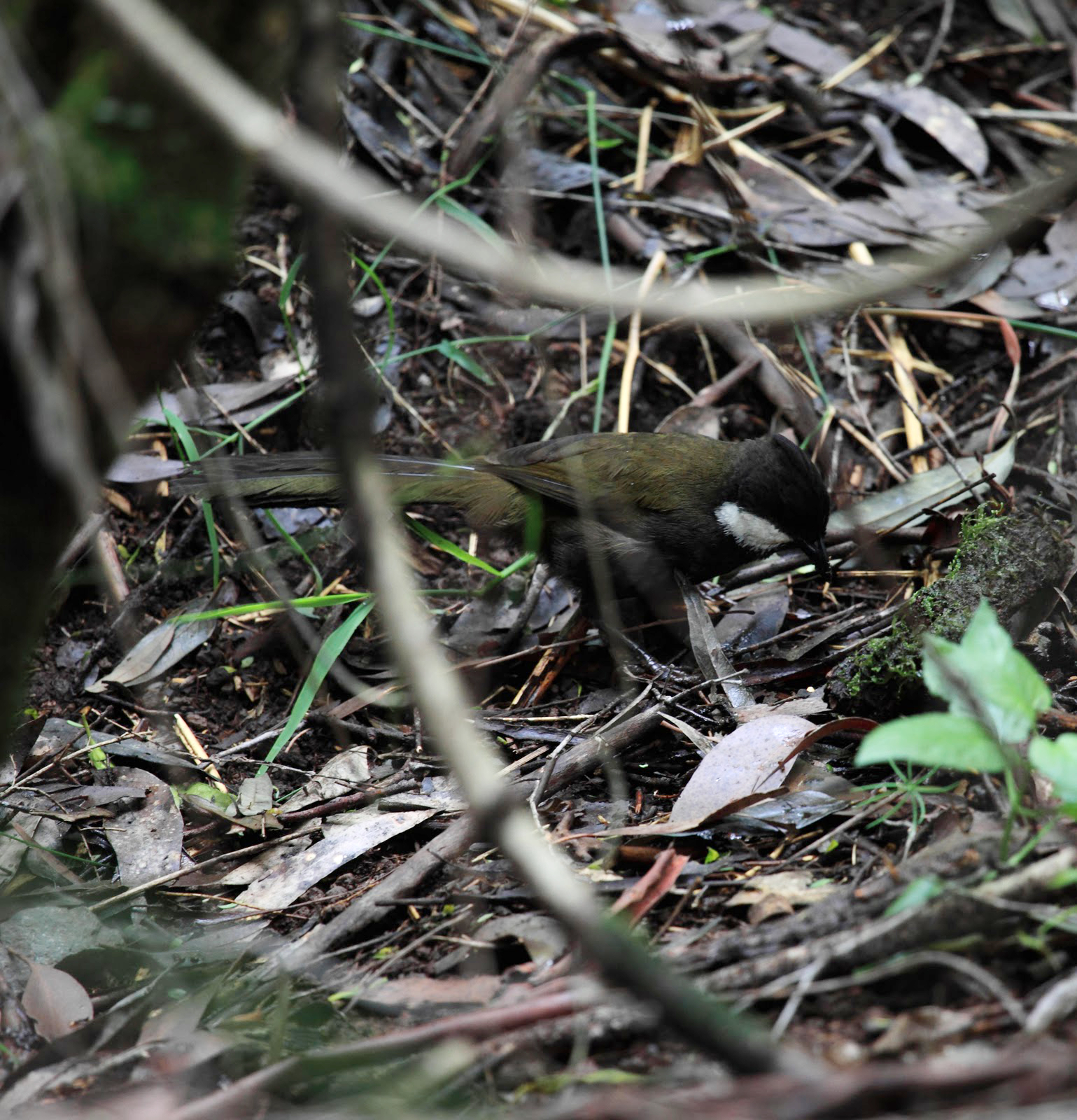 Eastern Whipbird (Psophodes olivaceus), Dandenong Ranges, Victoria, Australia